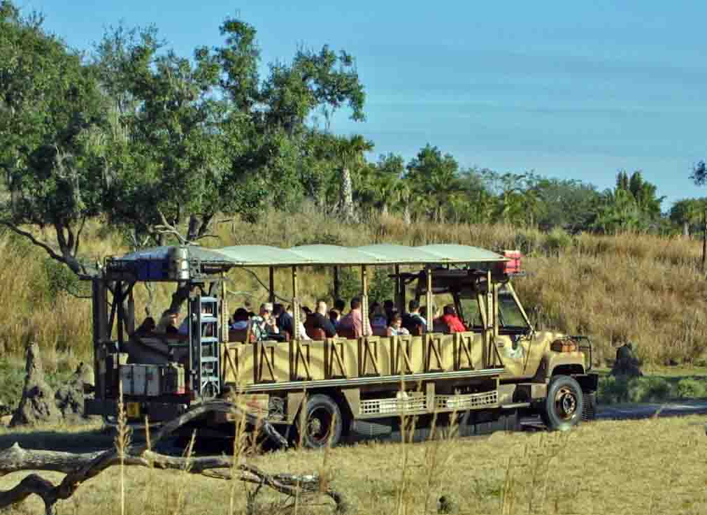 Disney Animal Kingdom - Safari